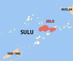 Map of the Sulu showing the location of the island of Jolo